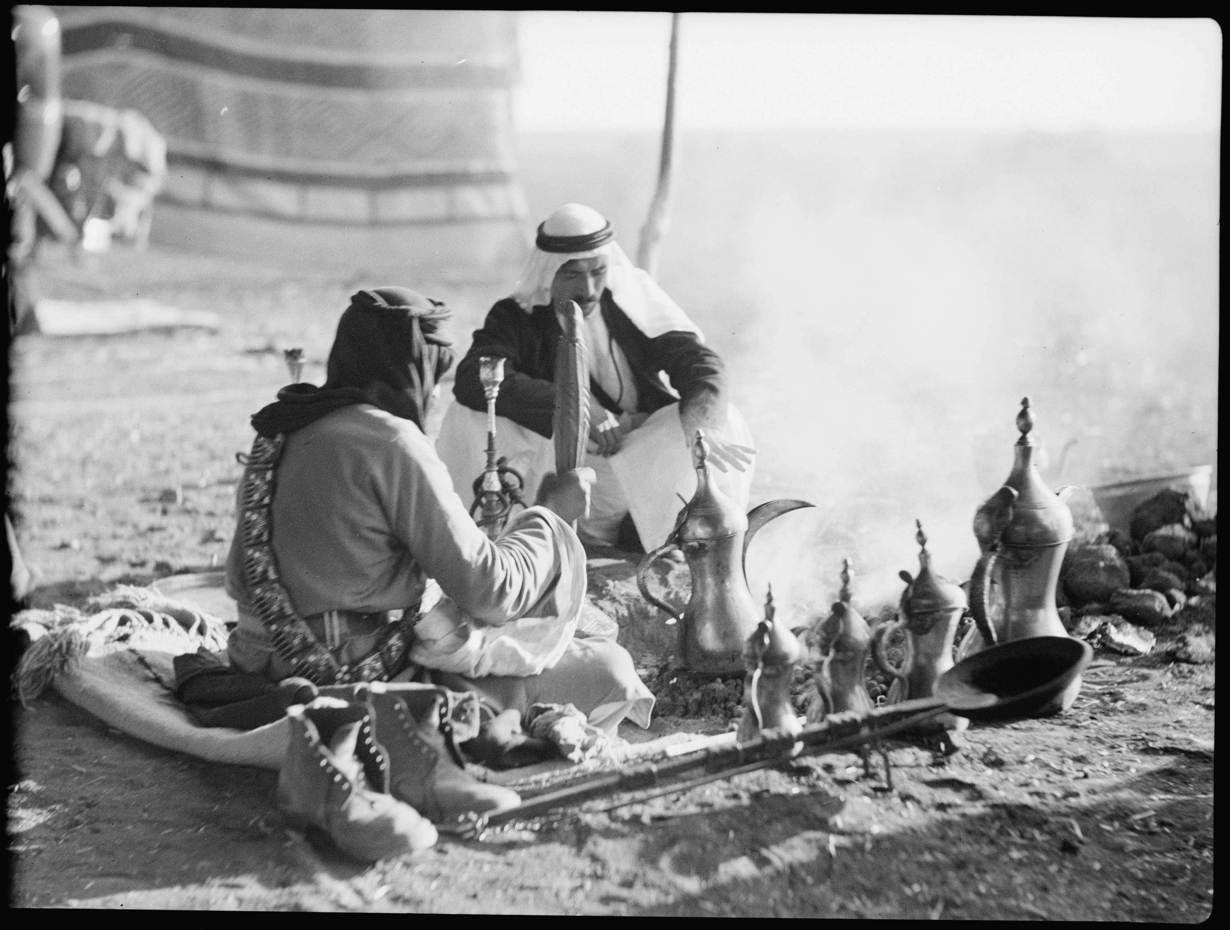 Title: Bedouin life in Trans-Jordan. An array of coffee pots around the fire Abstract/medium: G. Eric and Edith Matson Photograph Collection Physical description: 1 negative